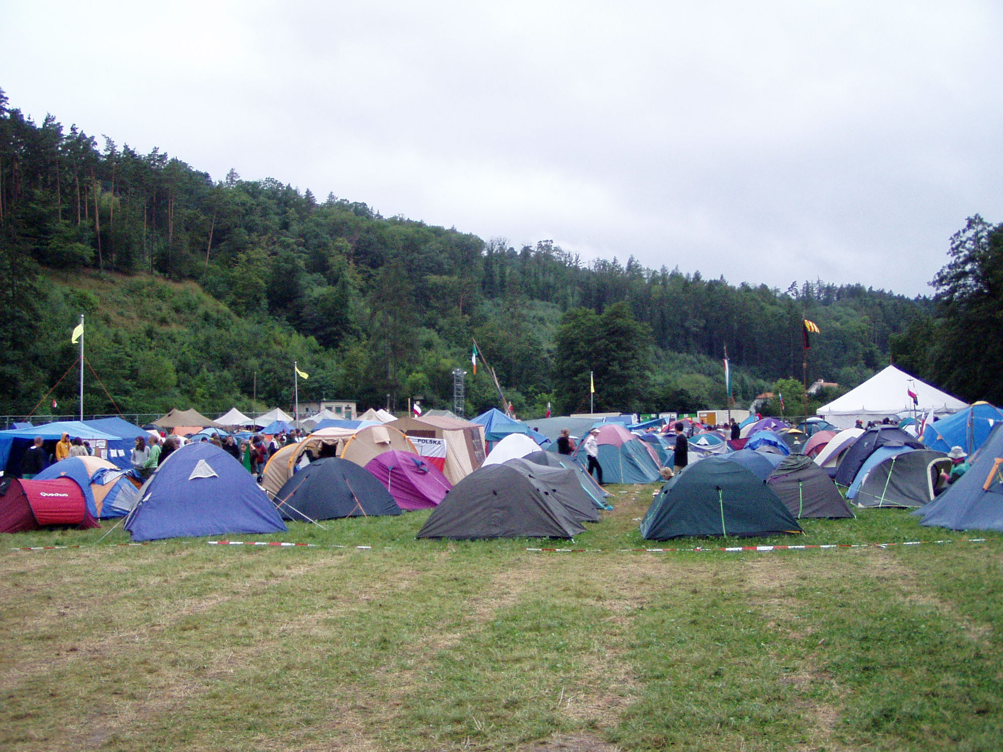 Orbis 2006 - 8th Central European Jamboree (camp)